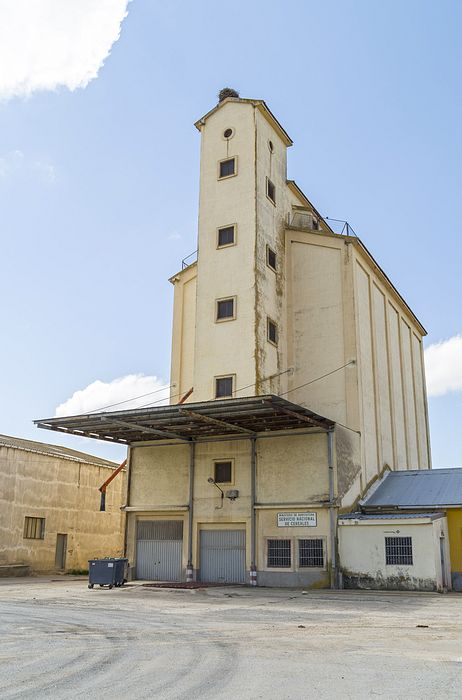 Silo de cereales